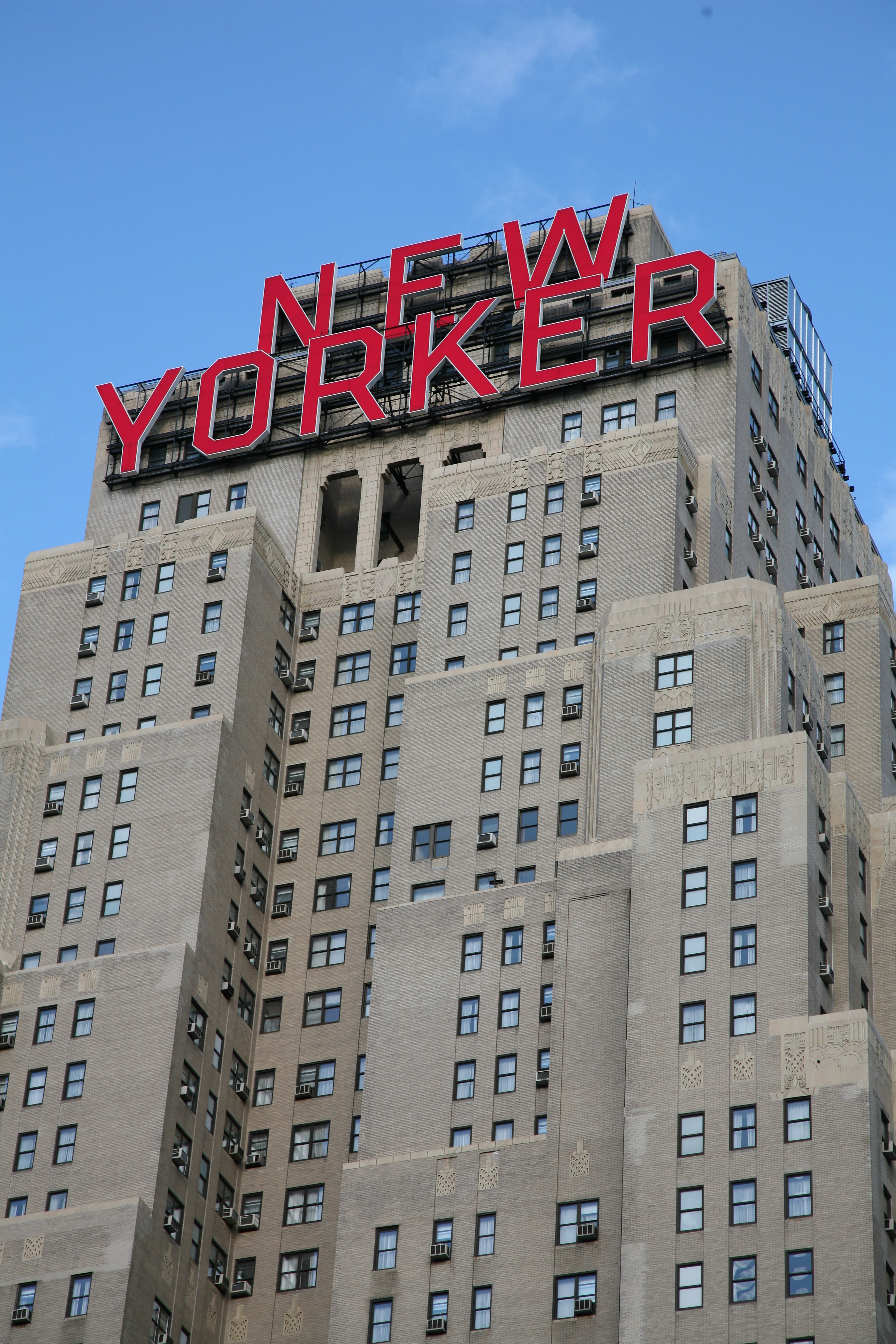 New Yorker Hotel building from below